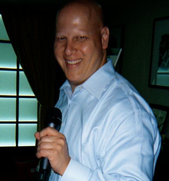 Daniel Weitzner in Paris, July 2002